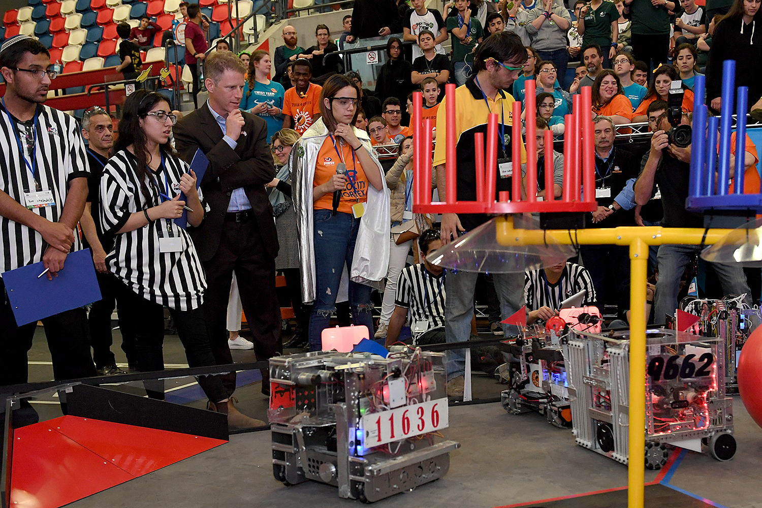 The U.S. Embassy was pleased to support students participating in FIRST Lego League, FIRST Lego League Junior, and FIRST Tech Challenge, March 1-2, 2017, in Tel Aviv. FIRST (For Inspiration and Recognition of Science and Technology) Israel is a non-profit organization dedicated to inspiring youth to pursue learning and careers in engineering, science, and technology. FIRST Israel (est. in 2005) is a program of the Technion, and is inspired by FIRST established in the U.S. by inventor Dean Kamen in 1998. Young people ages 6-18 participate in teams, together with community mentors, in sport-like robotics competitions. FIRST not only creates excitement about science and technology, but also instills life values and skills such as community involvement, self-confidence, and teamwork. In the 2016/17 season, over 11,000 students are being inspired through FIRST Israel. U.S. Embassy Cultural Attache Jon Berger praised FIRST Israel on their outstanding efforts to promote STEAM in Israel, congratulated the students for their impressive achievements and dedication to science and technology. On behalf of the U.S. Embassy and the American people, Mr. Berger presented the most prestigious FIRST INSPIRE Award to the winners of FIRST Tech Challenge (FTC) - Black Tigers from Kfar Yona. In April, the winners will travel to the U.S. to participate in FIRST Tech Challenge Championship in Houston, Texas. The event attracted an audience of more than 3,000 participants from all over Israel, including student teams - boys and girls from Israeli Jewish secular and religious, Arab, Druze and Bedouin communities as well as their teachers, mentors, volunteers, parents and guests.